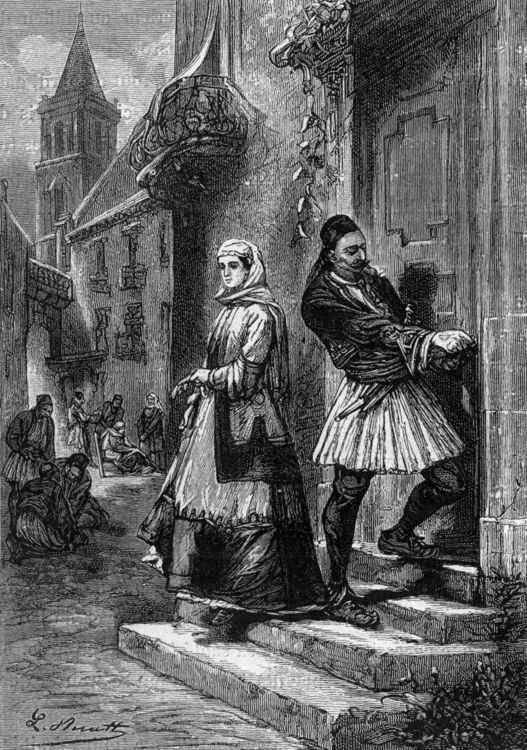 An illustration from Jules Verne's novel "The Archipelago on Fire" drawn by Léon Benett.